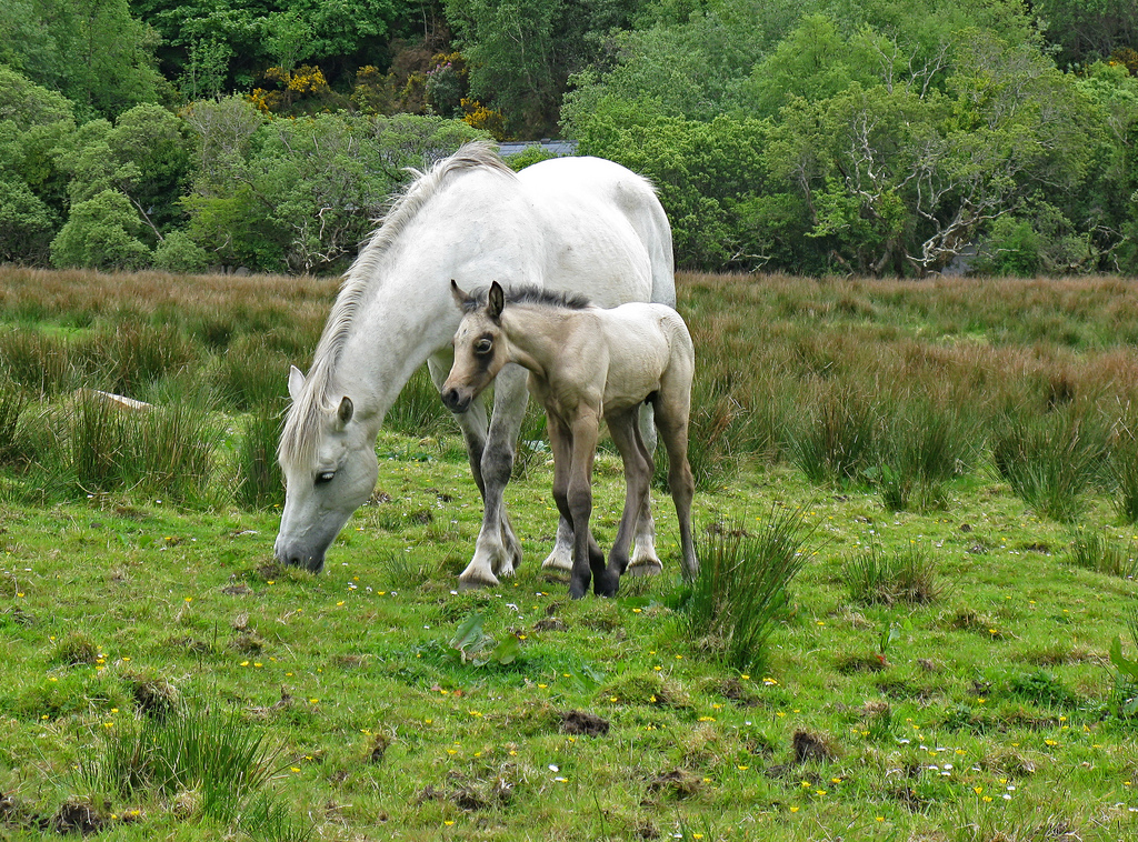 Connemara National Park, Connemara Ponies